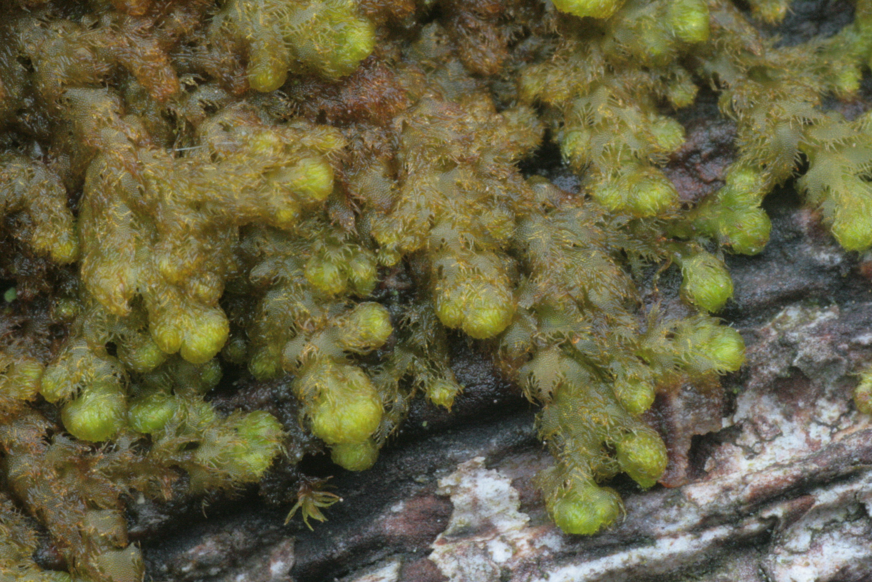 Ptilidium pulcherrimum